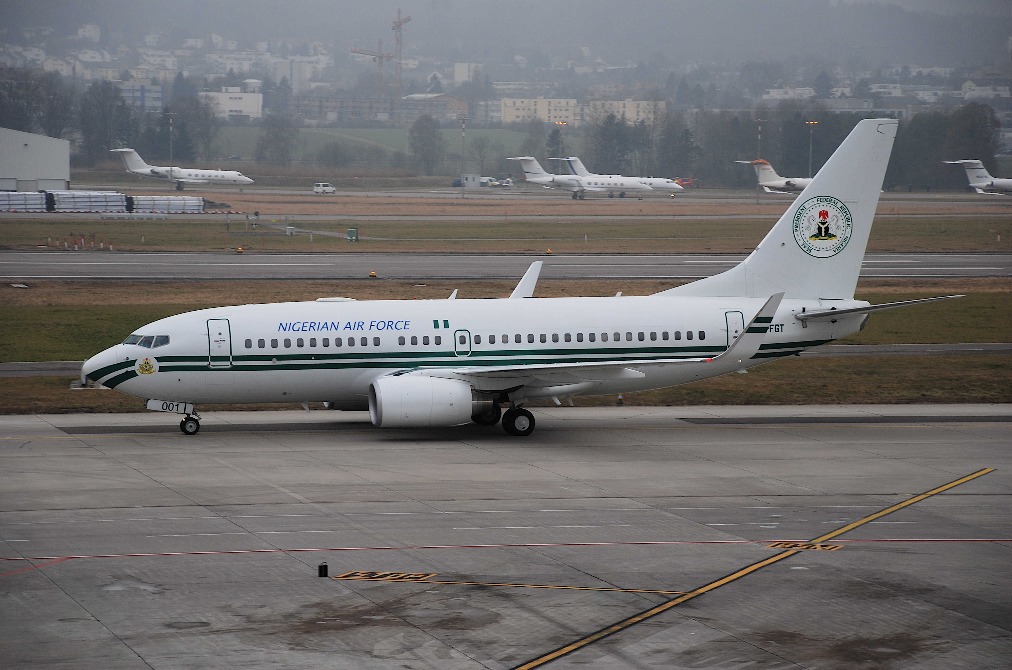 Nigerian Air Force Boeing 737-7N6; 5N-FGT@ZRH;26.01.2008/494be